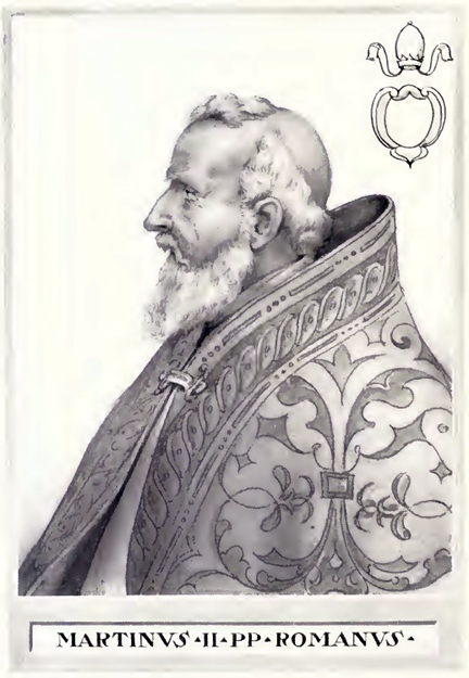 This illustration is from The Lives and Times of the Popes by Chevalier Artaud de Montor, New York: The Catholic Publication Society of America, 1911. It was originally published in 1842.